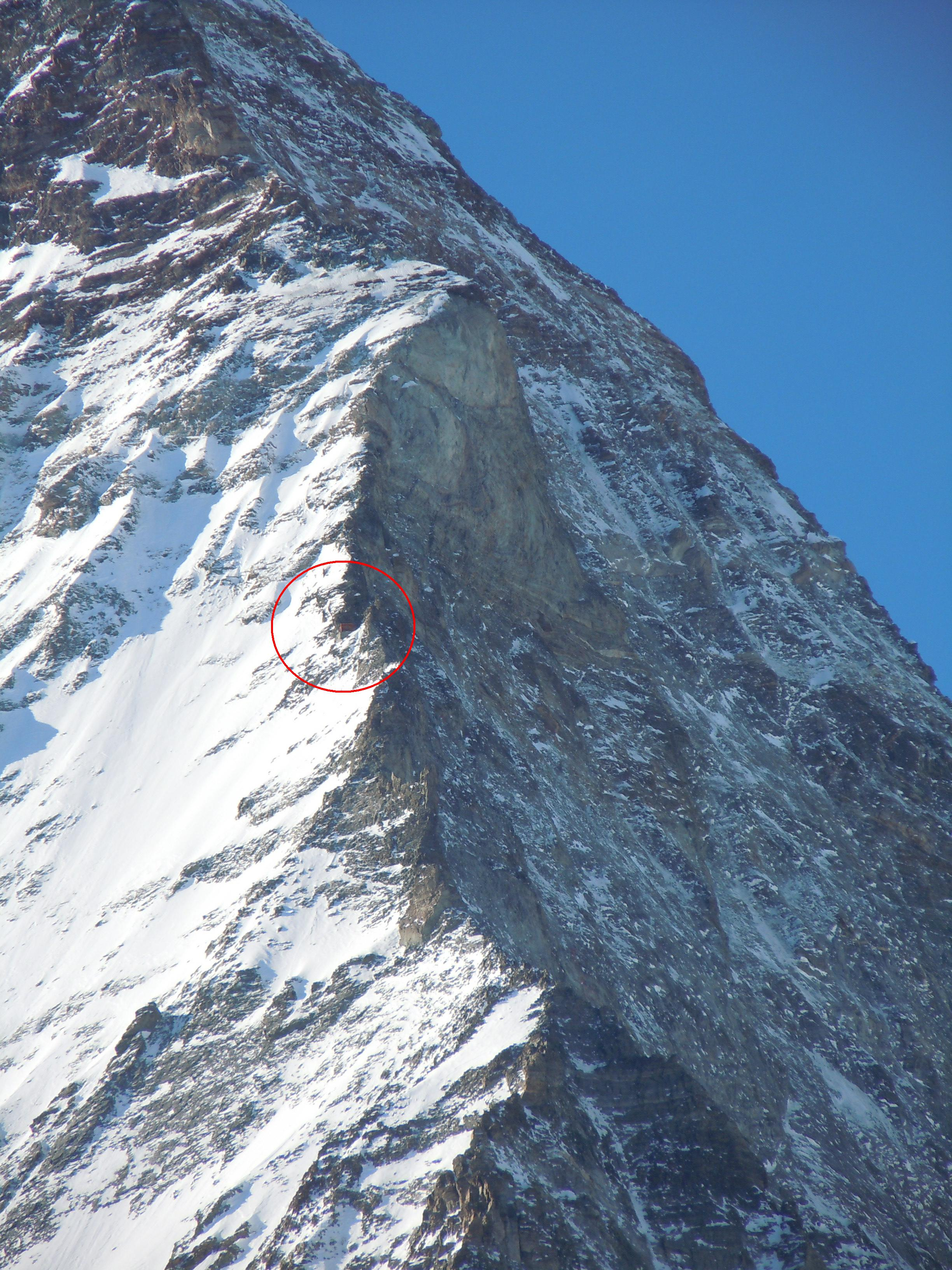 Solvayhutte position, on Matterhorn